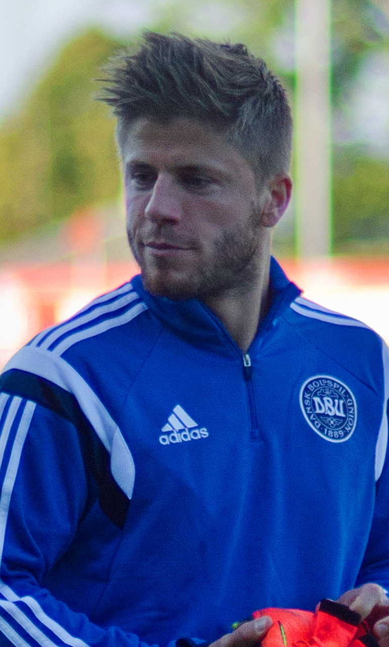 Lasse Schöne in training with Denmark national football team